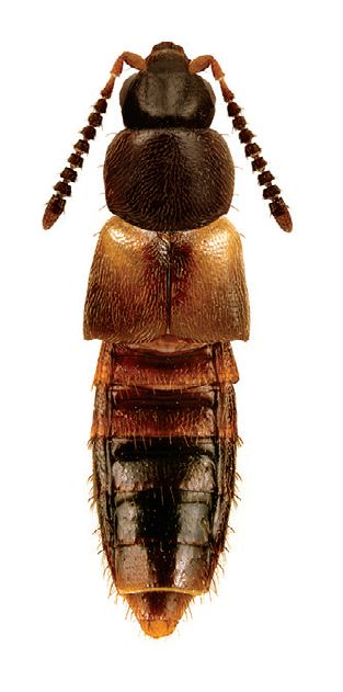 Atheta annexa